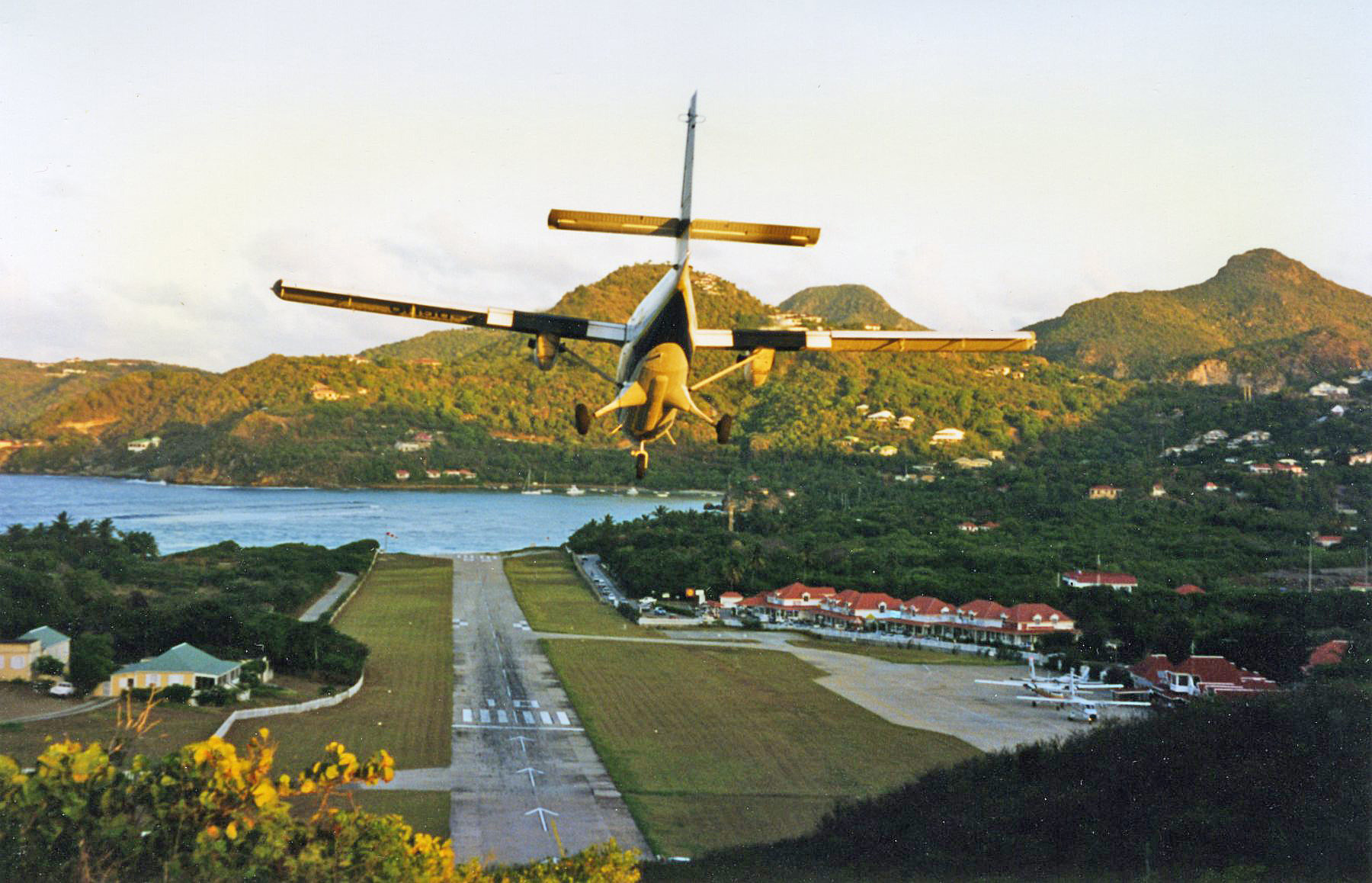 St Barthelemy airport code SBH